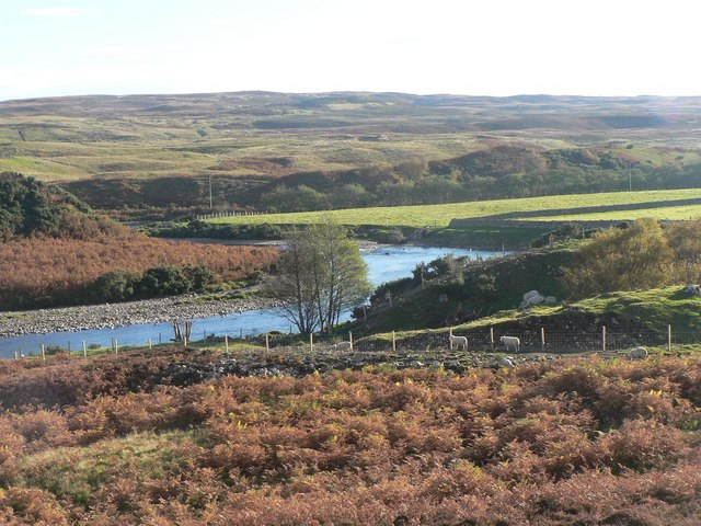 Strathnaver, bends in the river near Achargary and the B871 road